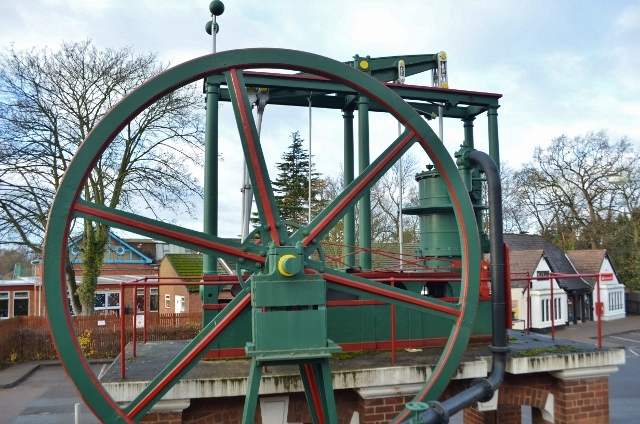 Loughborough Beam Engine, Data from Geograph: Description: Considering this engine is in the next town it is criminal of me not to have visited sooner. Its a delightful example of a Watt beam engine (1850s). It was donated in the 1930s to Loughborough college, famous for engineering... more ICBM: 52.768790749765, -1.2292422059745 Location: (about 1 km from) near to Thorpe Acre, Leicestershire, Great Britain.